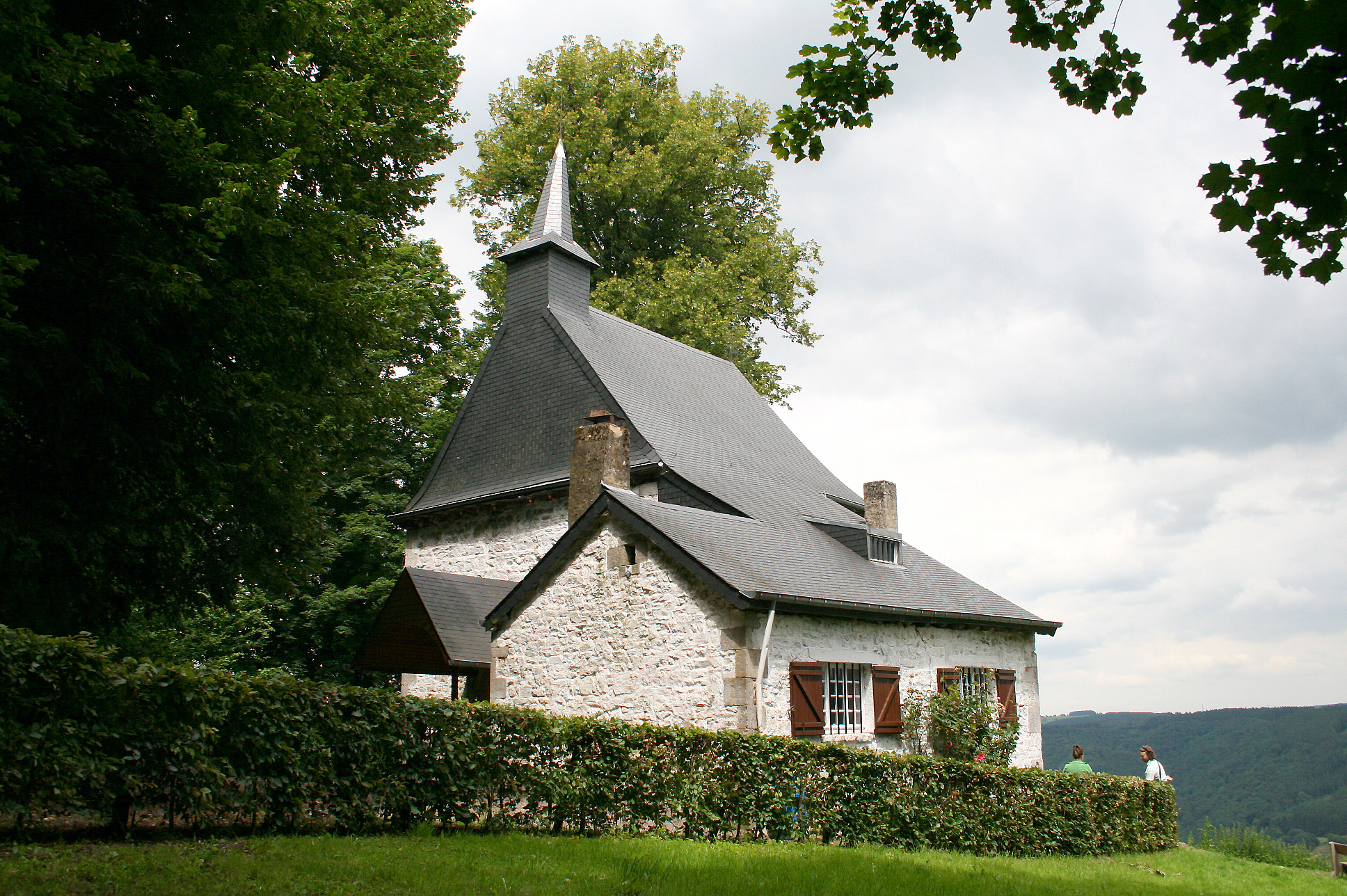 Marcourt (Belgium), the Saint Thibaut chapel and hermitage (1639).